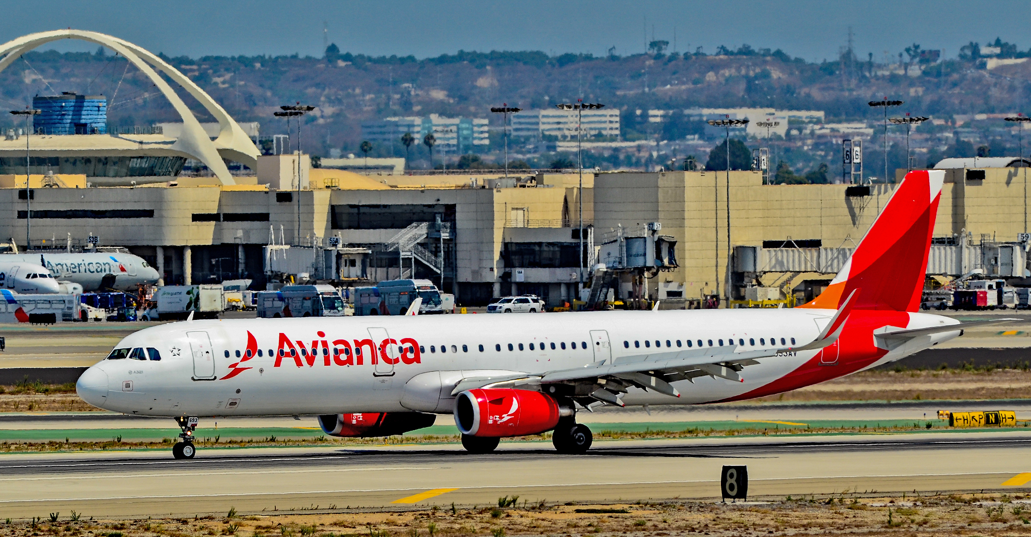 Delivered March 2014 Los Angeles International Airport (IATA: LAX, ICAO: KLAX, FAA LID: LAX) Photo: TDelCoro September 2, 2017